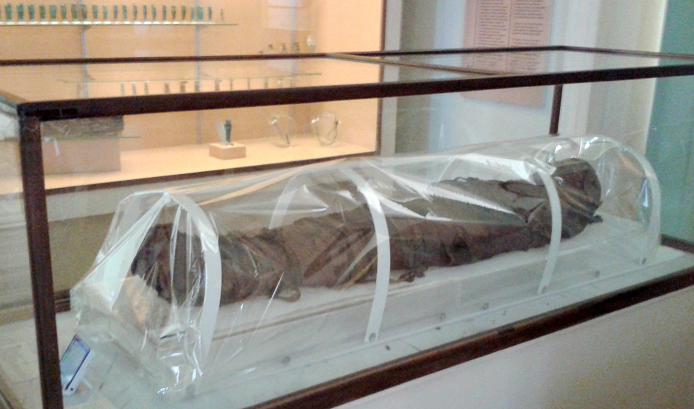 Mummy of Hori, priest of the temple of Amon in Karnak (present day Luxor). It still preserves the original shroud and three strips used in its tying. The sarcophagus of this mummy is also housed in the National Museum, Rio de Janeiro.